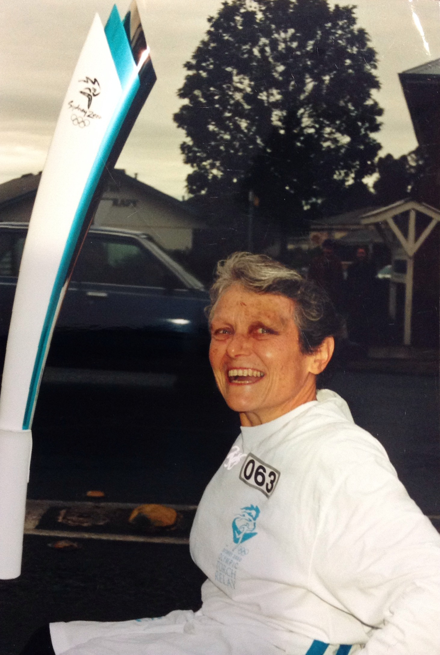 Lyn Lilliecrapp holding the Olympic Torch in the torch relay for the Sydney Olympic Games